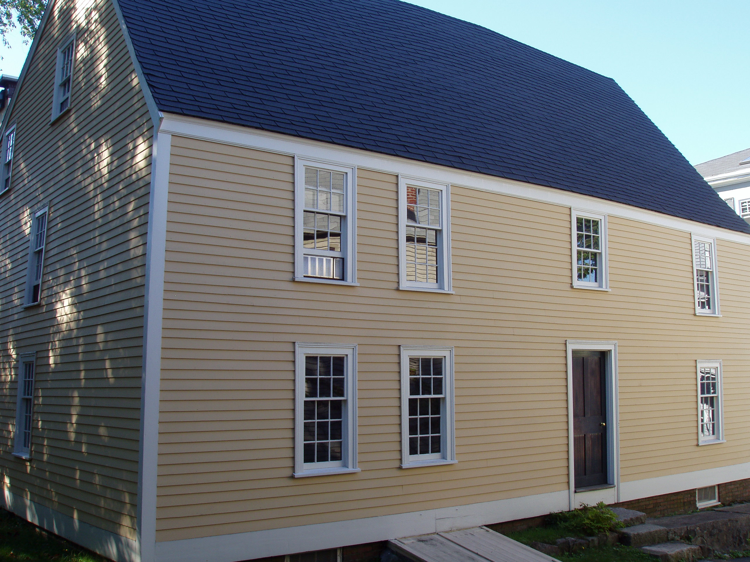 Gedney House - Salem, Massachusetts. Exterior view. Photograph taken by me, September 2005.